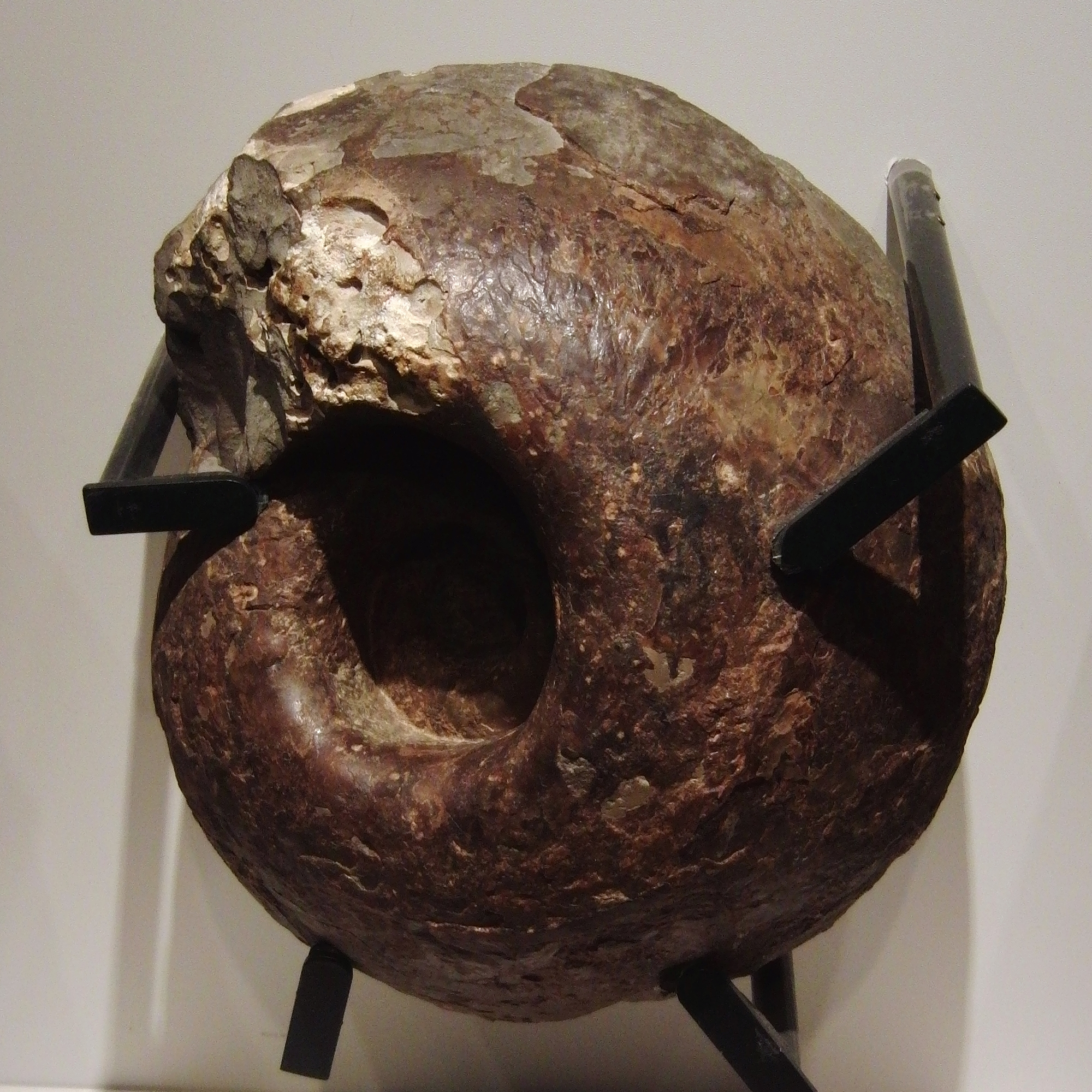 Fossil of Fagesia spheroidalis from Wakkanai, Hokkaido, Japan. Late Cretaceous. Exhibit in the National Museum of Nature and Science, Tokyo, Japan.